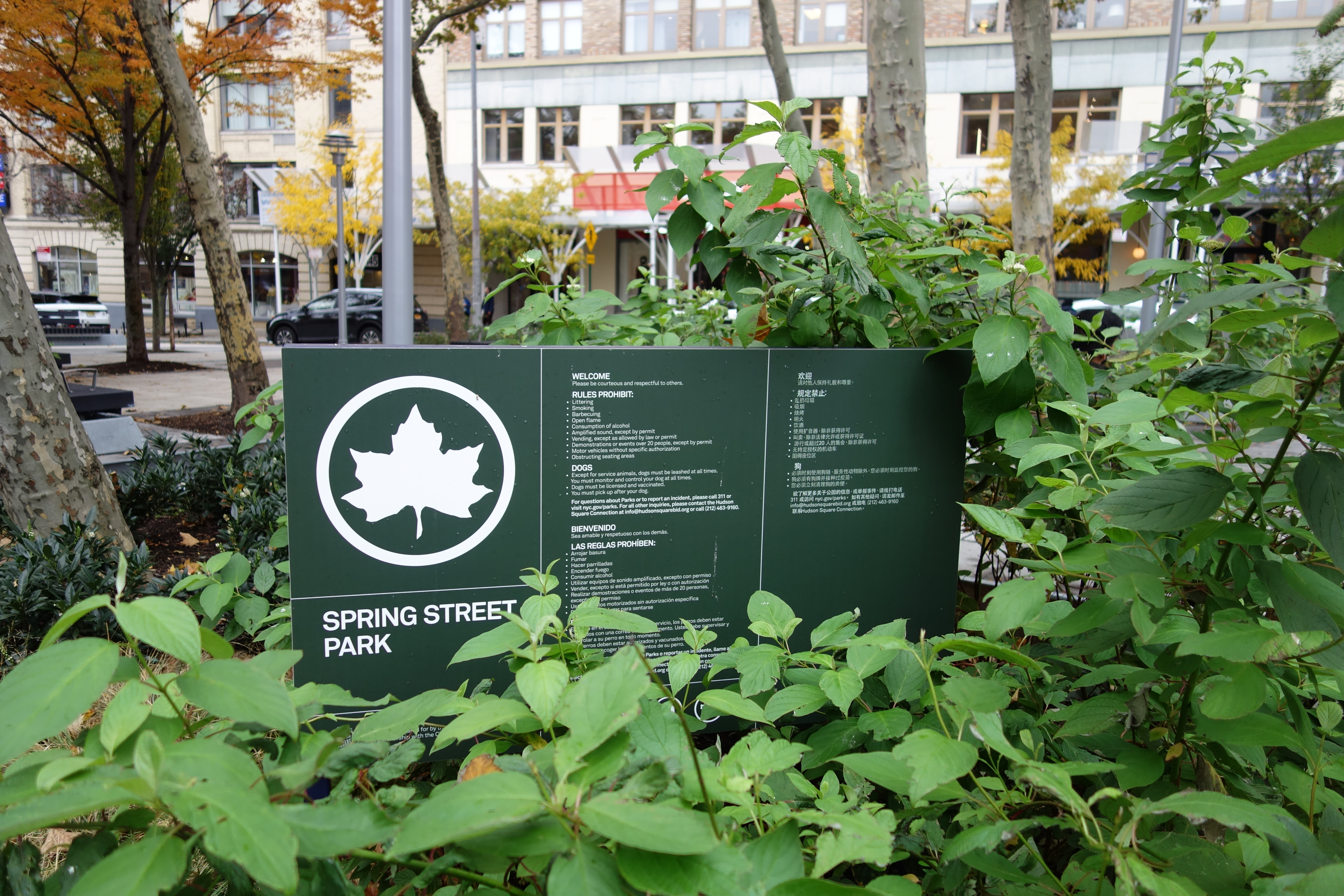 A modern Parks Department sign for Spring Street Park, formerly SoHo Square, at the southwest corner of 6th Avenue and Spring Street in SoHo / Hudson Square, Manhattan. The sign is obstructed by vegetation, which I suppose is aesthetically pleasing.